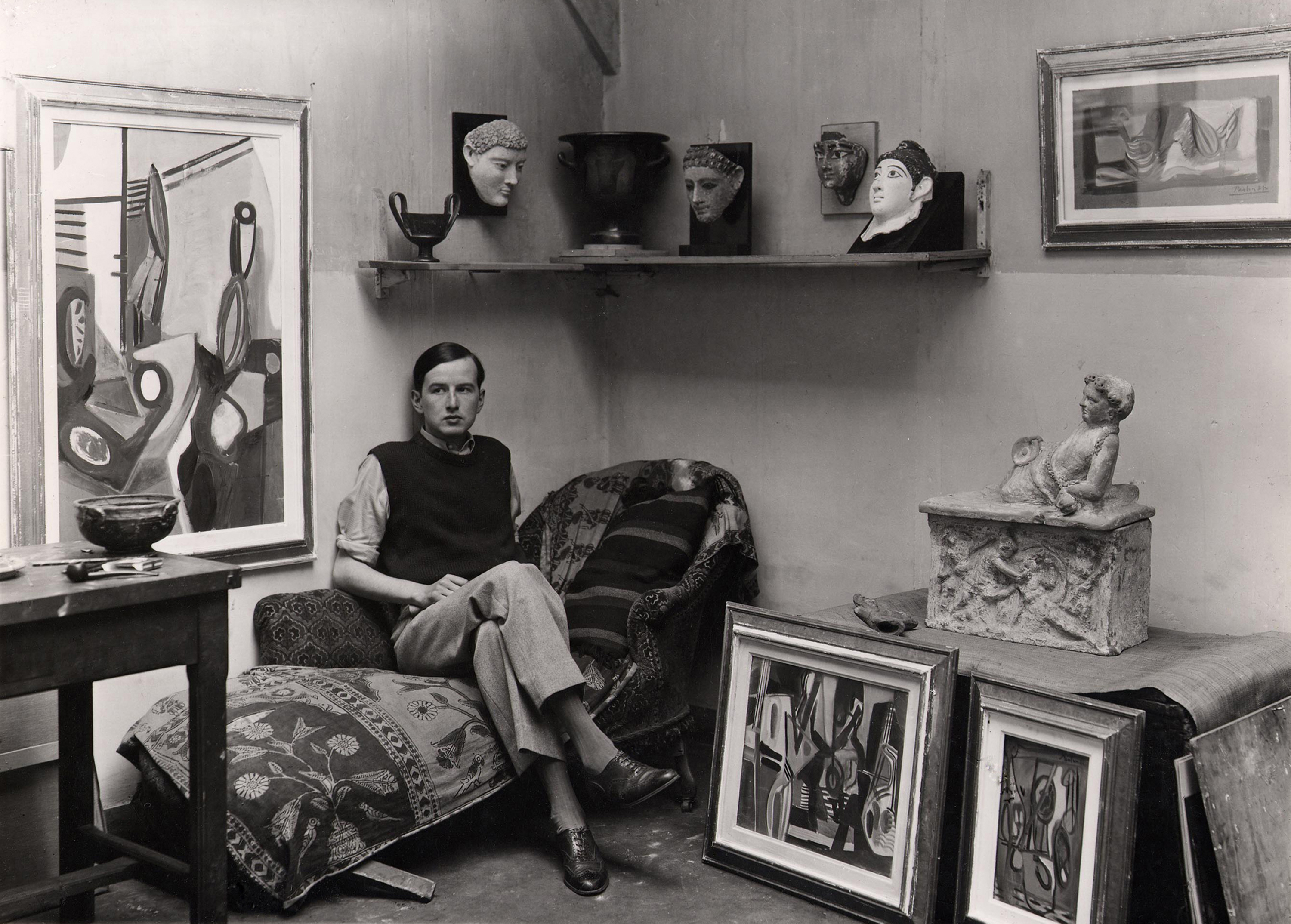 Wolfgang Paalen in his studio appartment in Paris, rue Pernety, ca. 1933